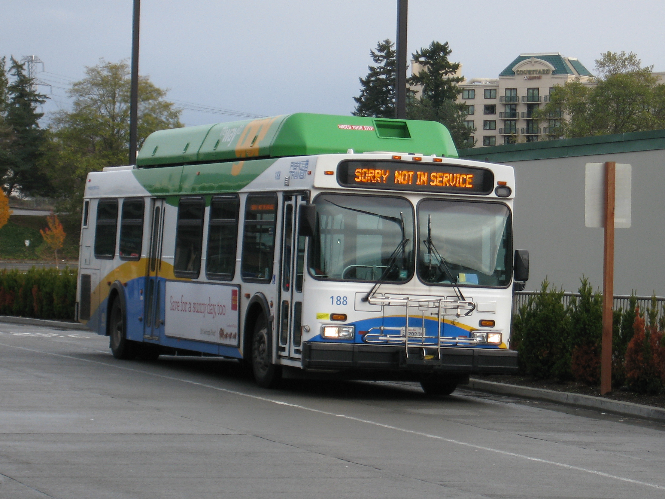 Pierce Transit C40LF.